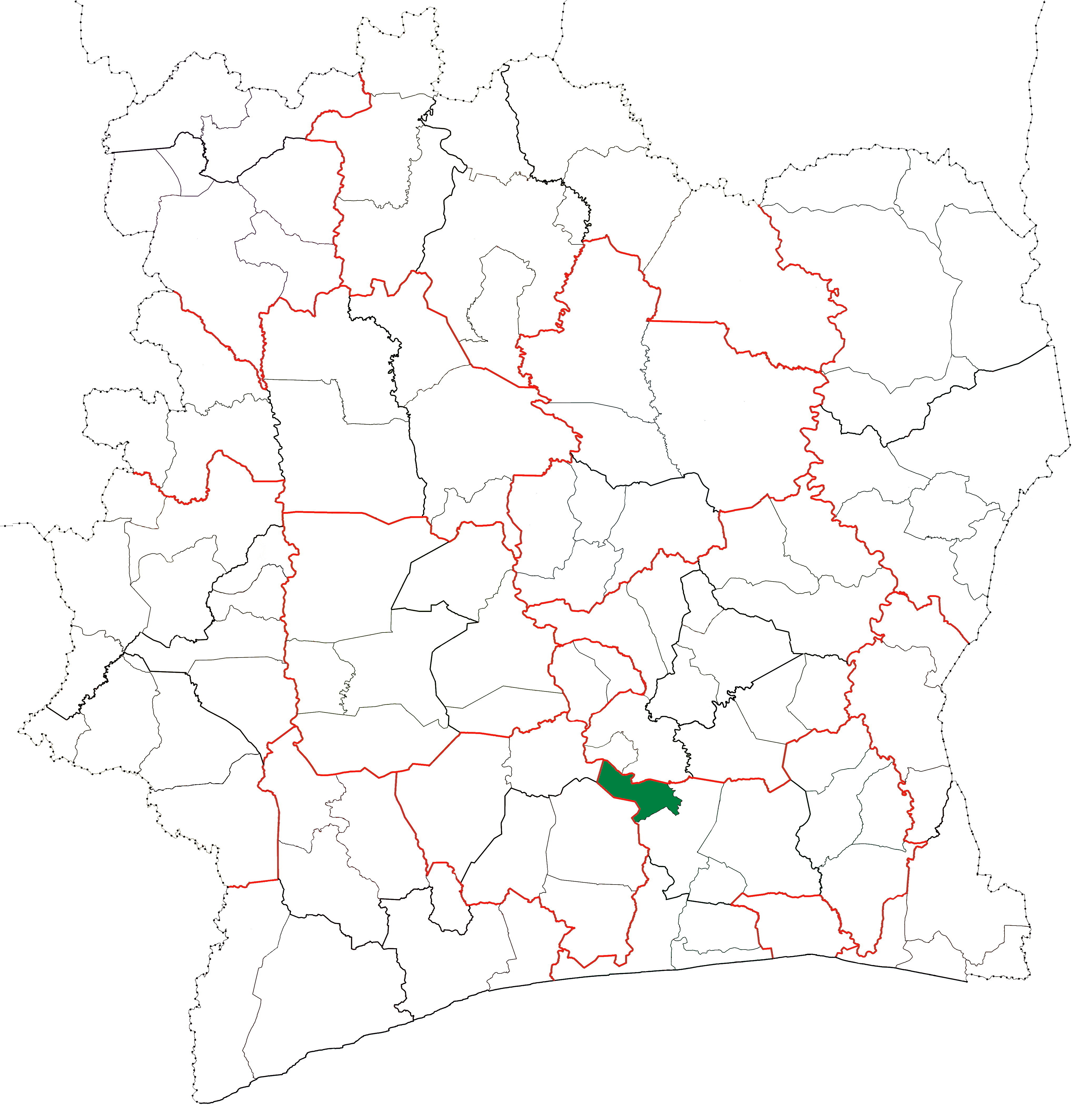 Locator map for Taabo Department in Côte d'Ivoire.